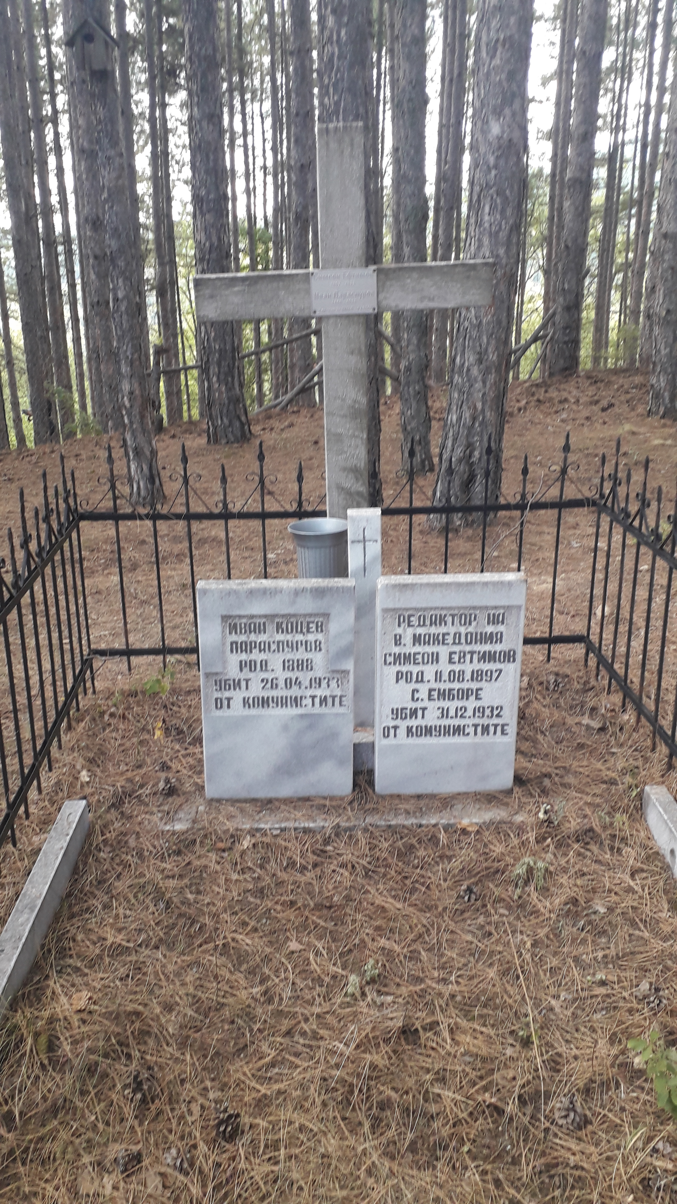 Ivan Paraspurov and Simeon Evtimov graves